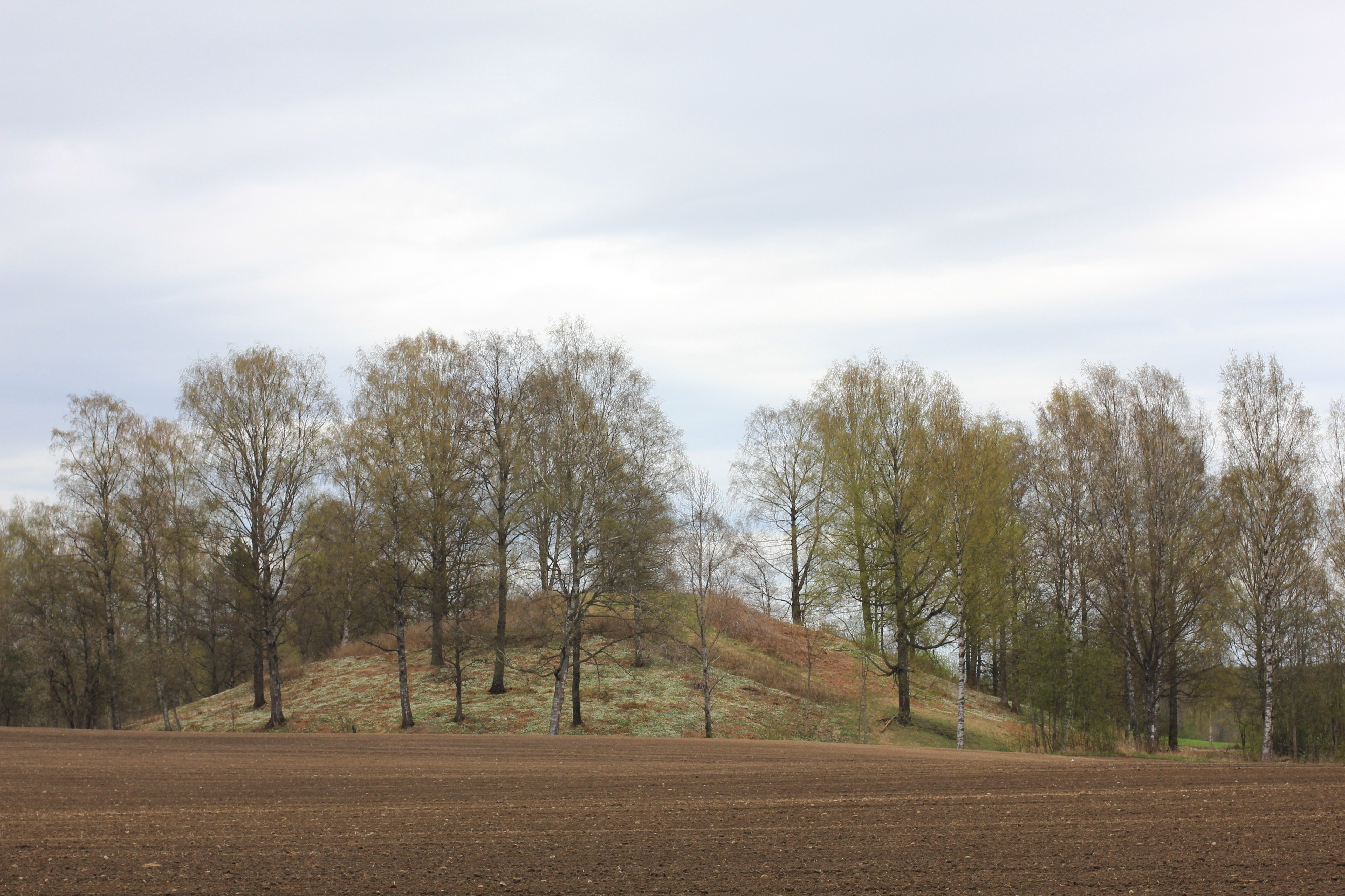 Raknehaugen burial mound is the largest one in Scandinavia. Situated at Ullensaker, Akershus, Norway. Just south of Oslo international airport, Gardermoen.